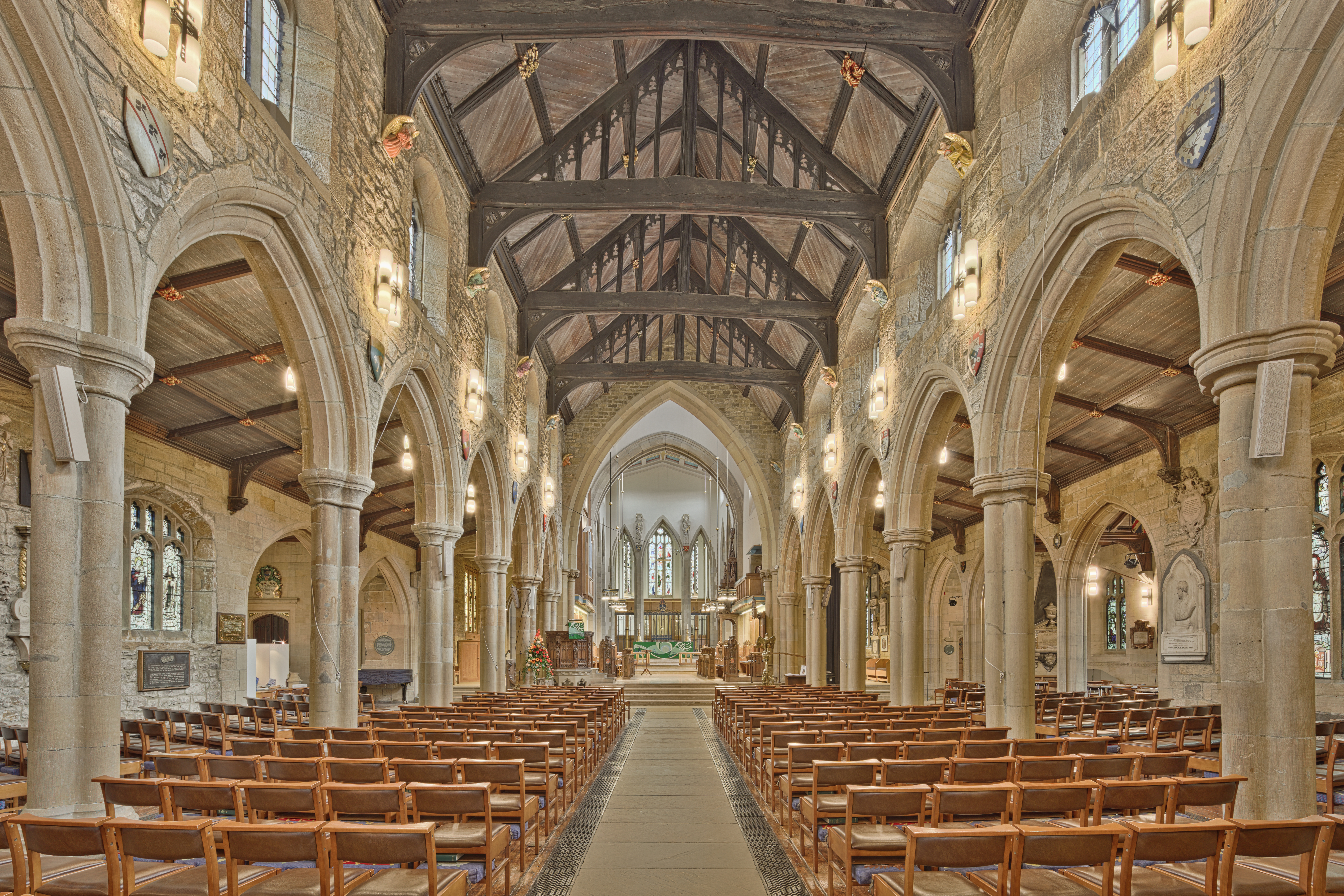 Here is a photograph taken from the nave inside Bradford Cathedral. Located in Bradford, Yorkshire, England, UK.